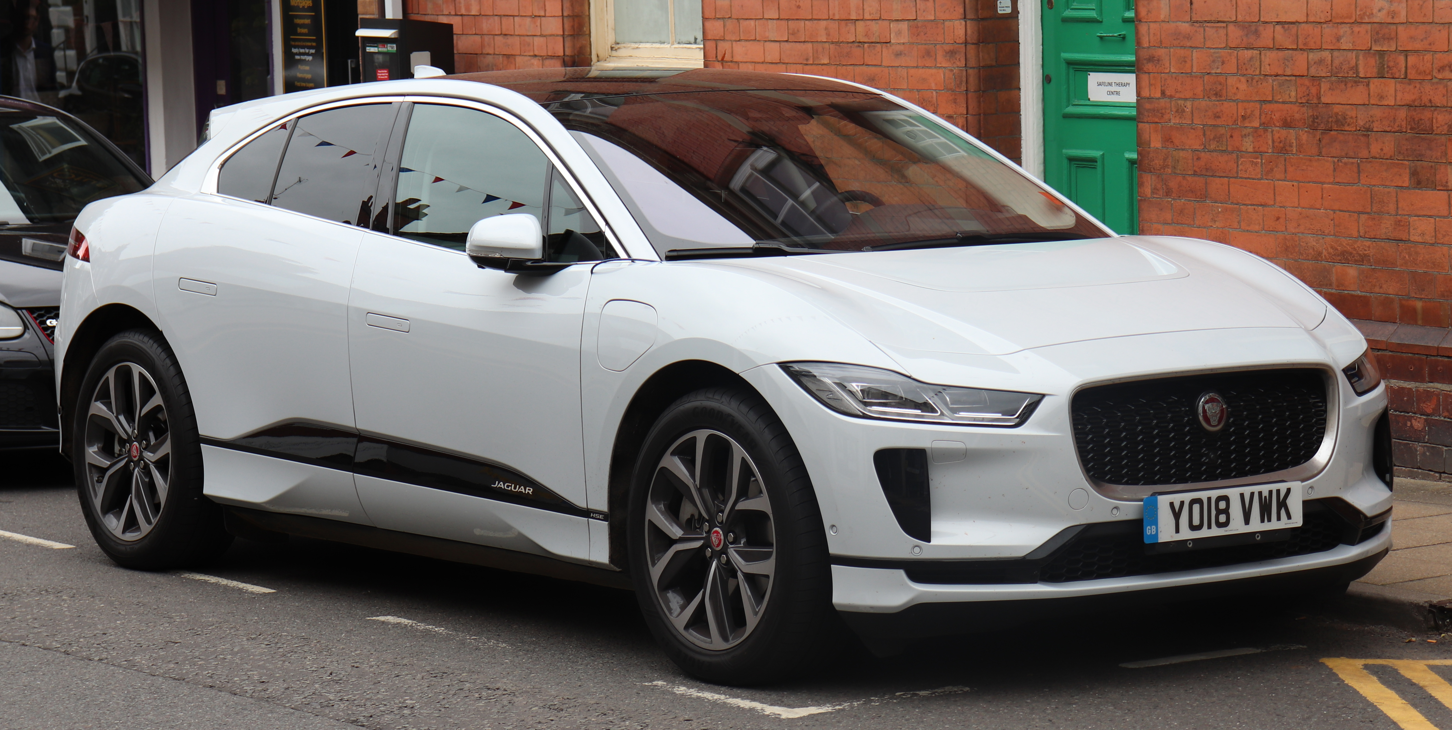 2018 Jaguar I-Pace EV400 AWD Front Taken in Warwick